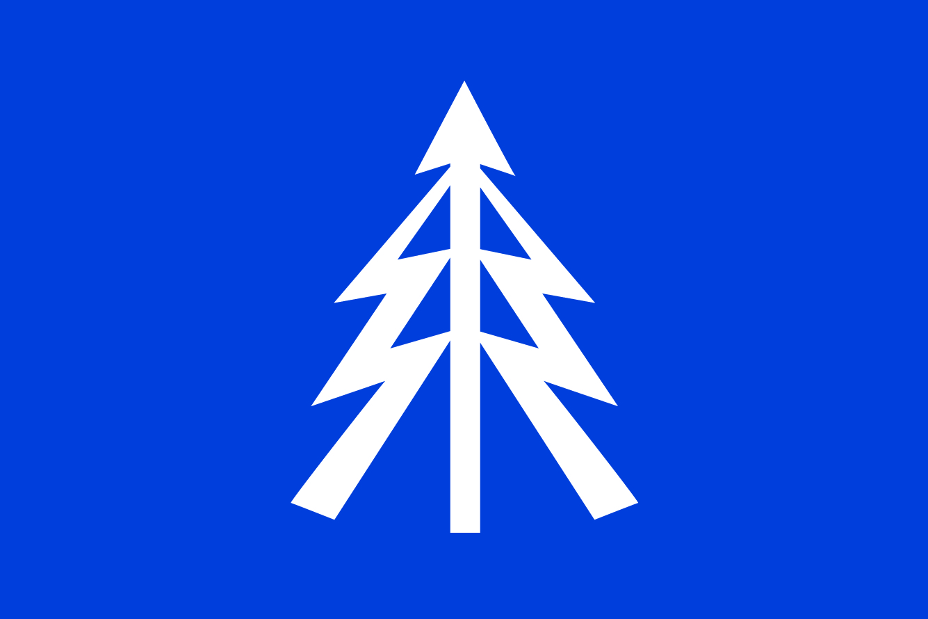 QDG Technical Recognition Flash